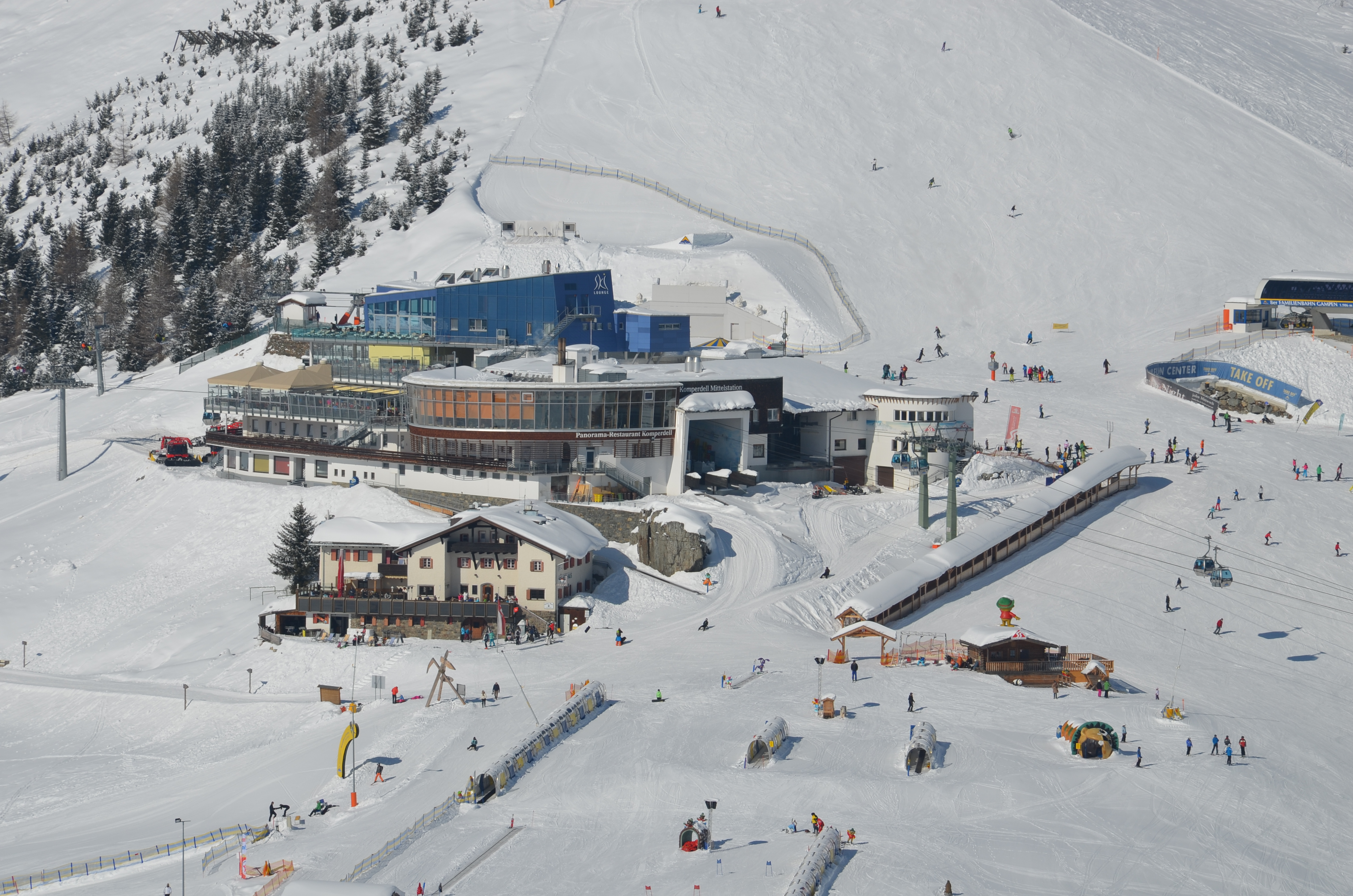 View down at the Komperdell from the Alpkopf